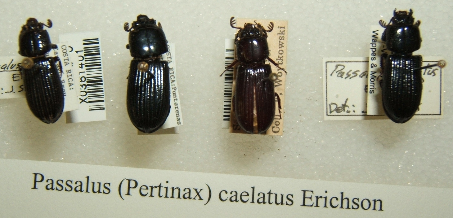 Passalus caelatus adults taken by Shawn Hanrahan at the Texas A&M University Insect Collection in College Station, Texas.